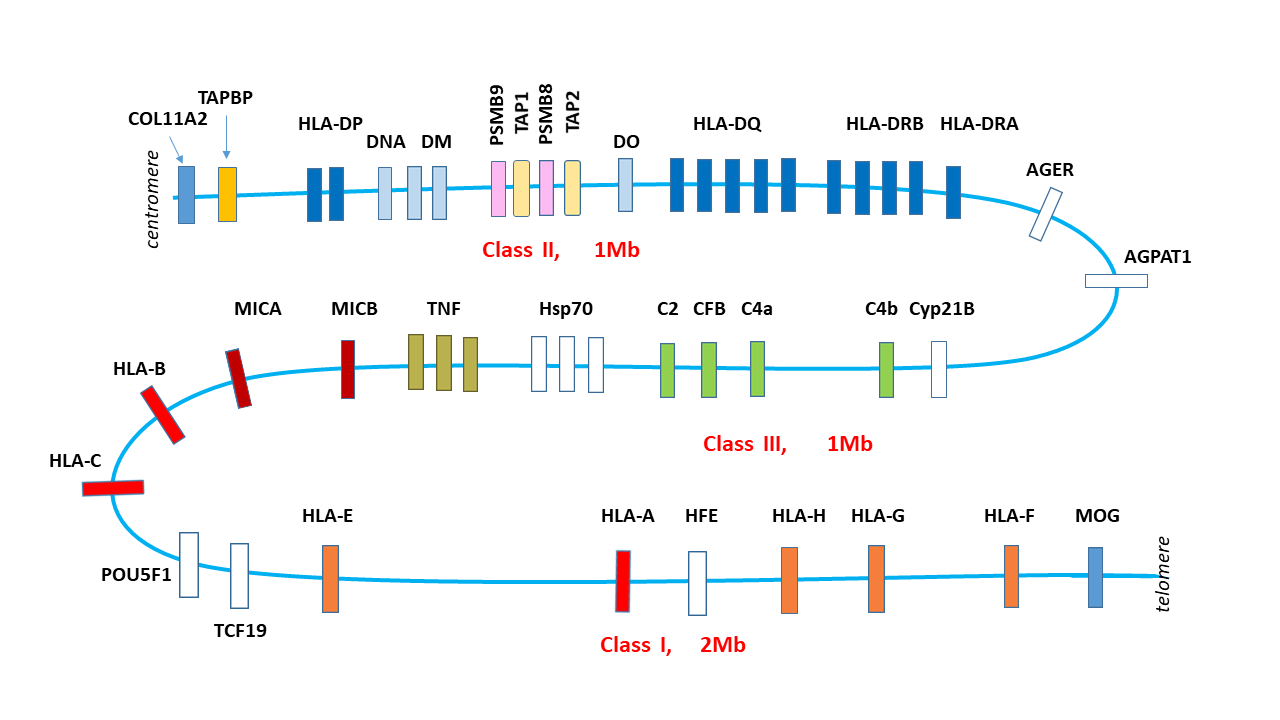 Order of genes from human MHC locus, HLA